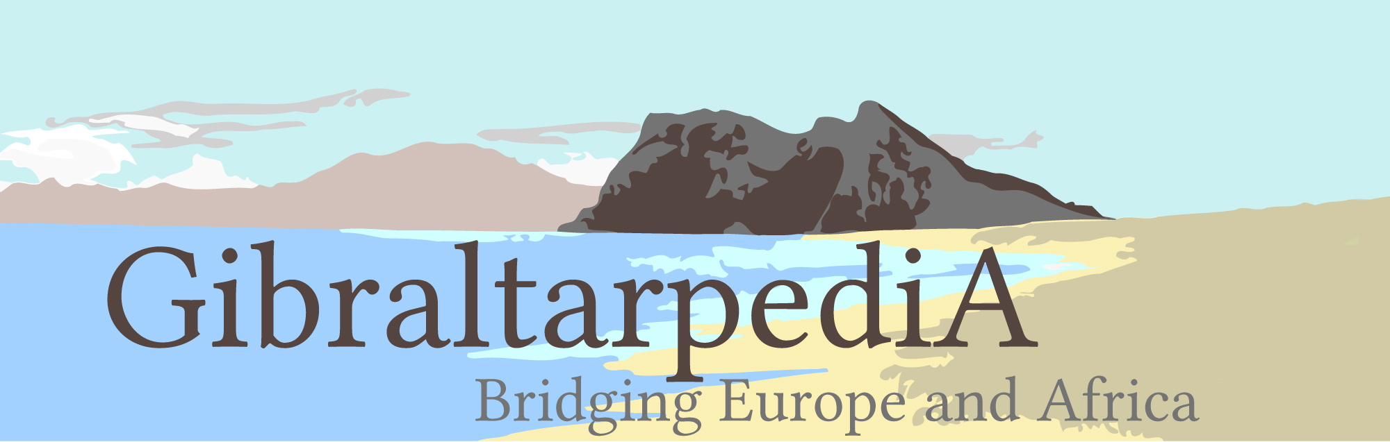 Gibraltar banner